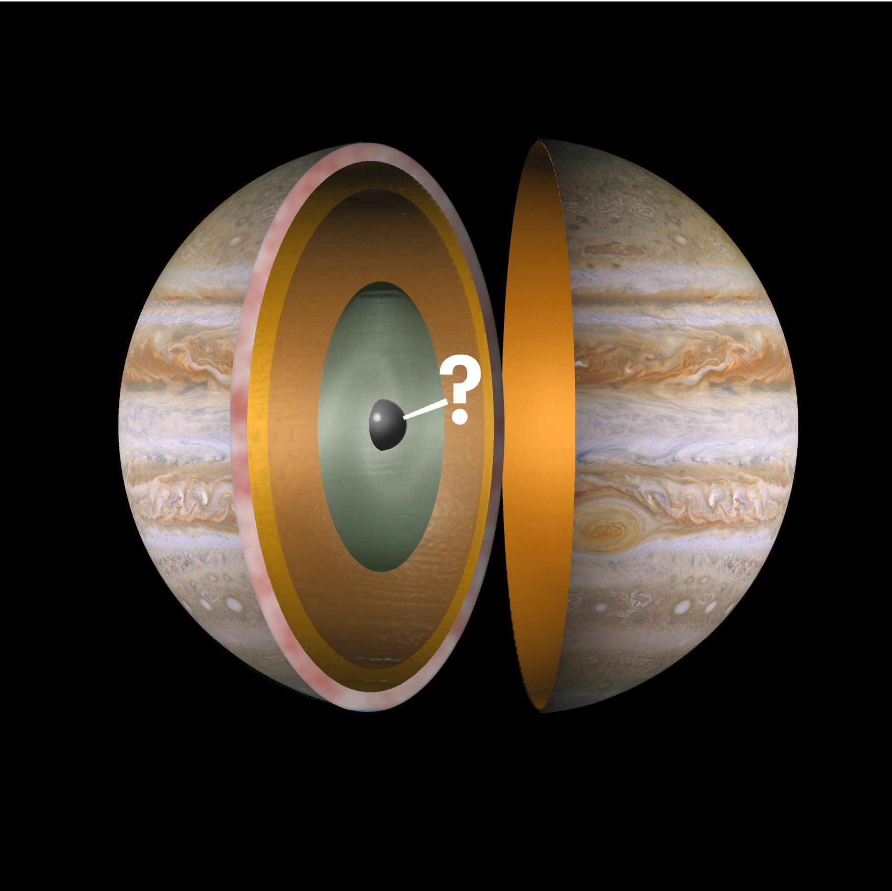 animation of Jupiter's Interior, with a question mark symbolizing one of the Juno spacecraft goals - to determine if Jupiter has a core or not, and if so, to mesure it.